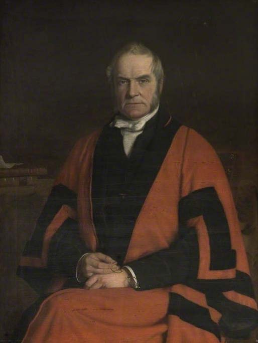 Portrait of John Howard (1791-1878)